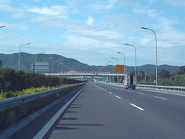 West 5th Ring Road.